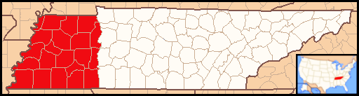 The Diocese of Memphis encompasses the counties in western Tennessee, USA.